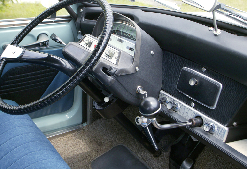 Interior of Citroën Ami 6.